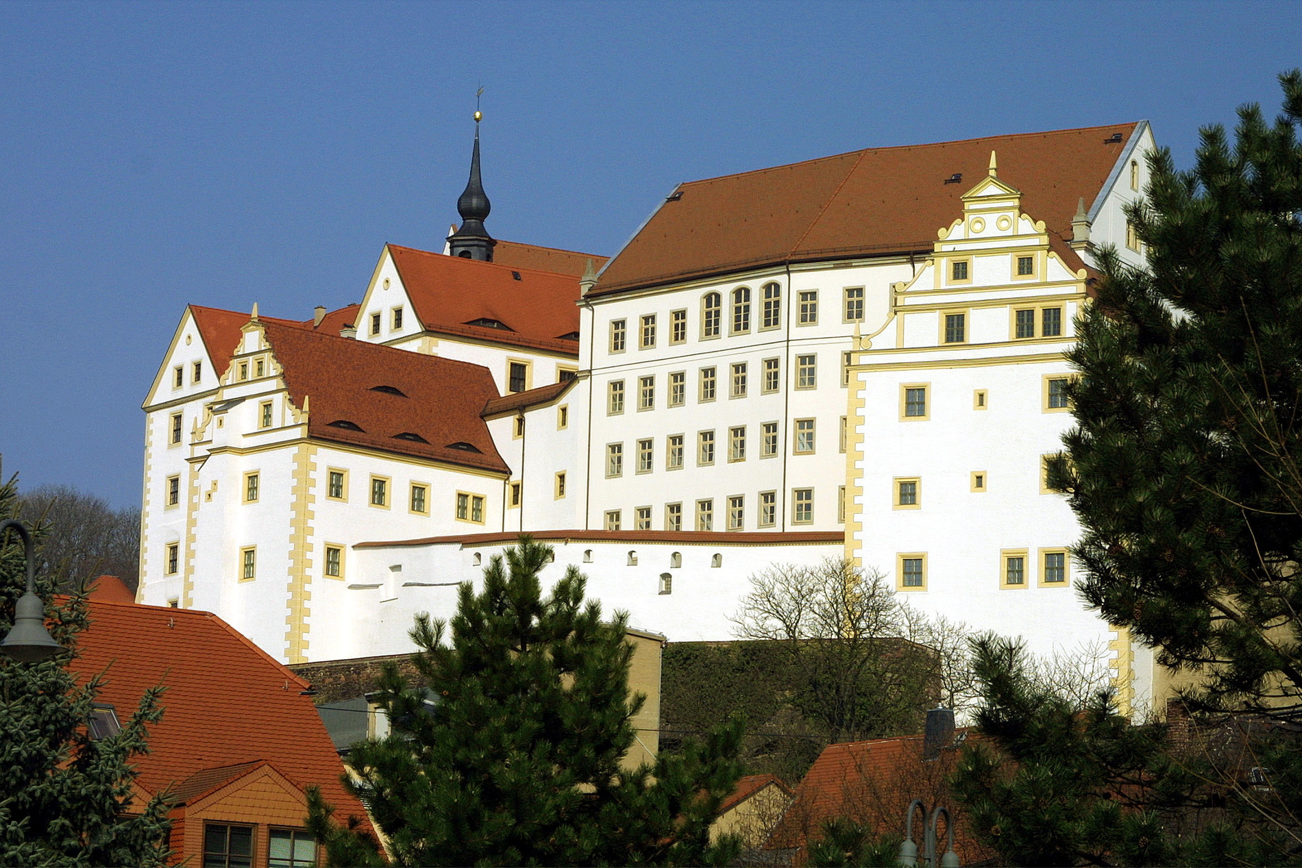 Picture of the youth hostel Colditz Castle